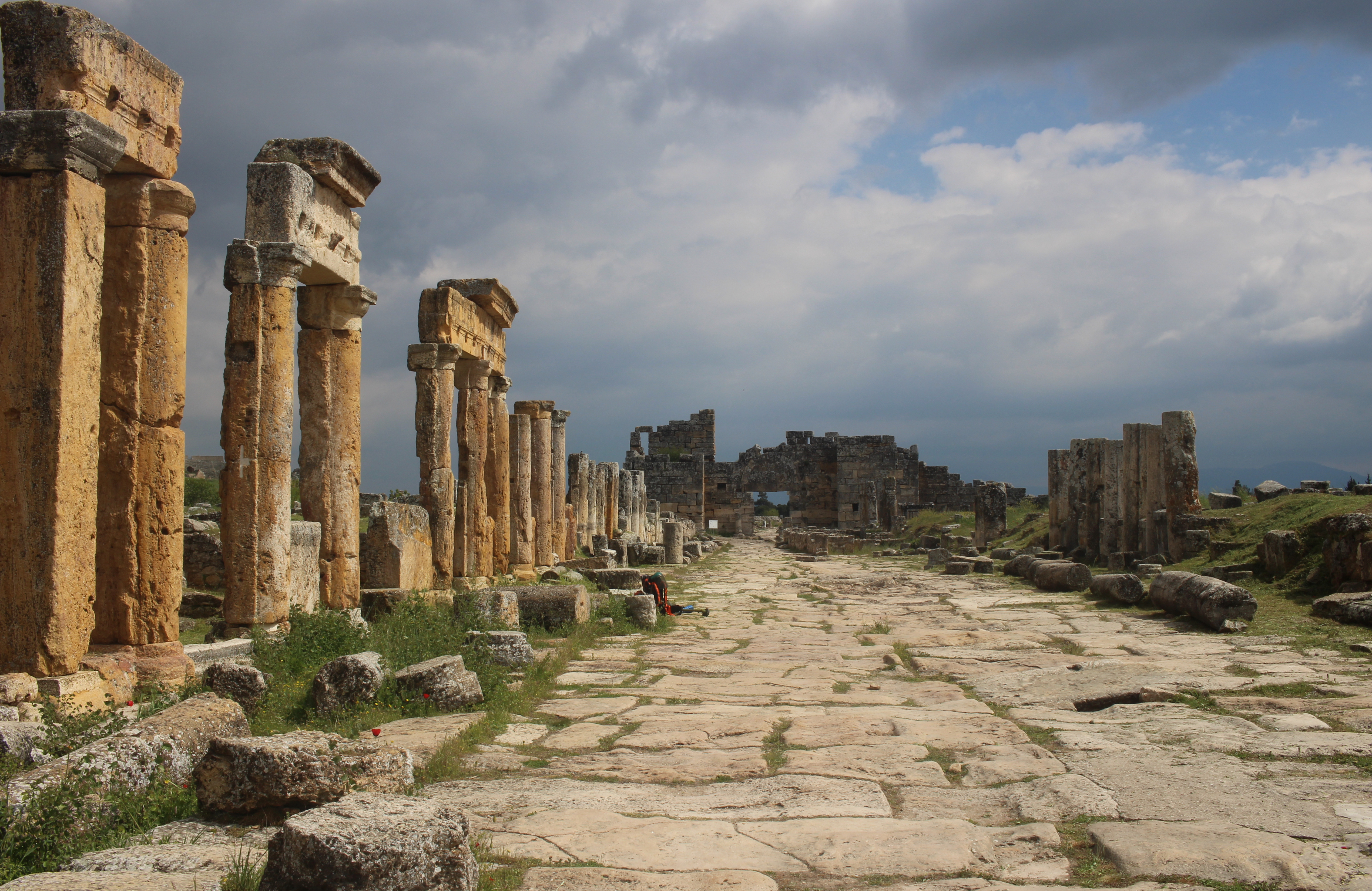 Hierapolis Main Street, Frontinus Street and South Gate